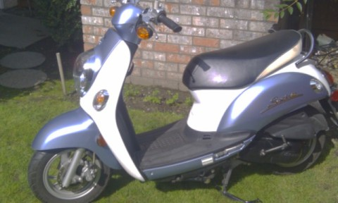 Kymco Sento motor scooter